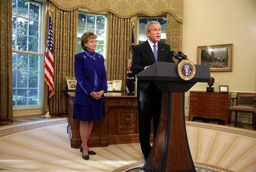 President George W. Bush nominates White House Counsel Harriet Miers as Supreme Court Justice during a statement from the Oval Office on Monday October 3, 2005. White House photo by Paul Morse.